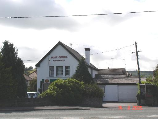 Post office at Rhydymwyn. The post office in the small village of Rhydymwyn on the main Mold - Denbigh road